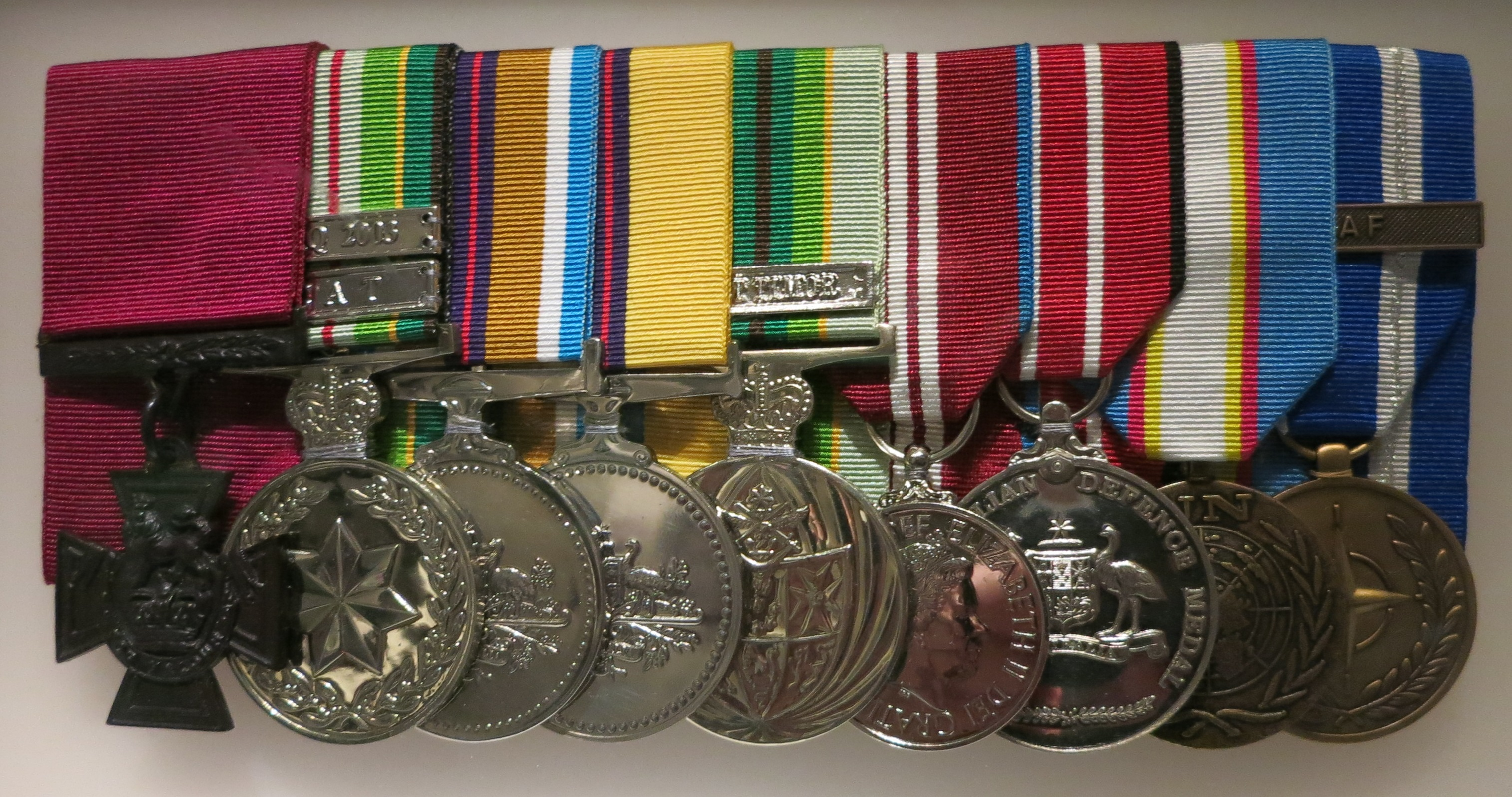 Daniel Keighran's medals, including his Victoria Cross (at left), on display at the Australian War Memorial